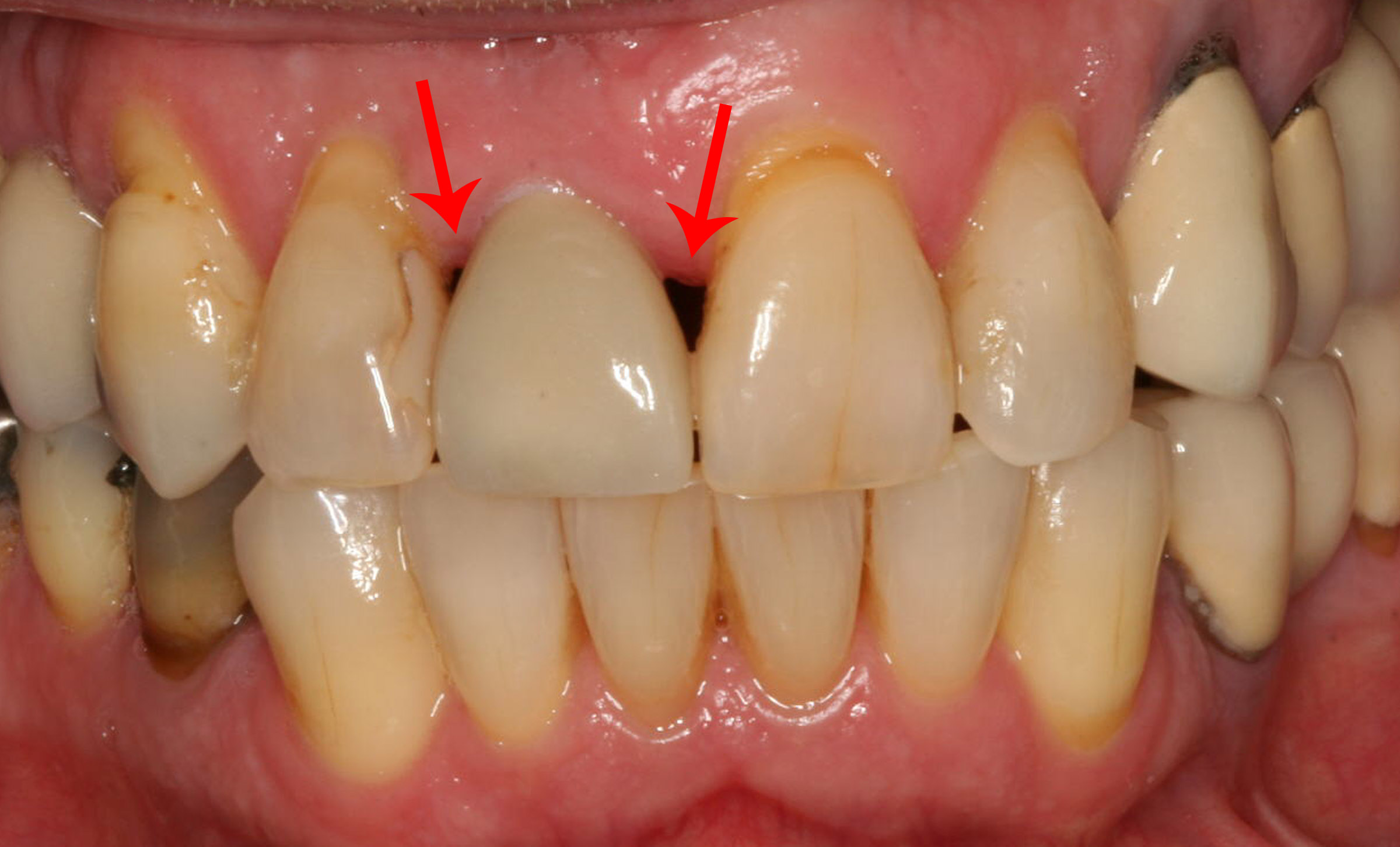 Black triangles on either side of a dental implant supported crown due to loss of bone between the implant and adjacent teeth.